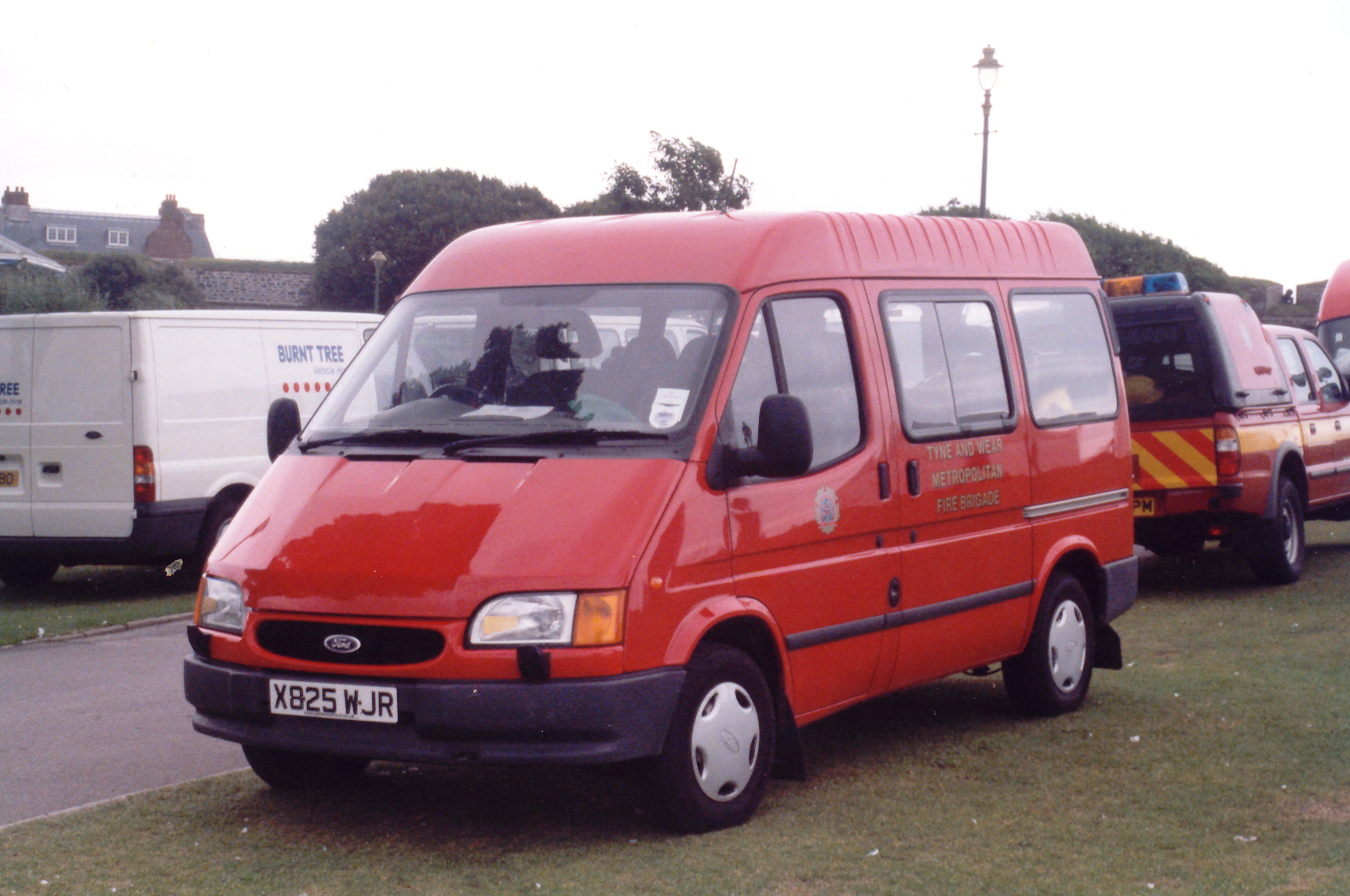 11th August 2001 Fire Rescue Competition hosted by Devin Fire Brigade on Plymouth Hoe